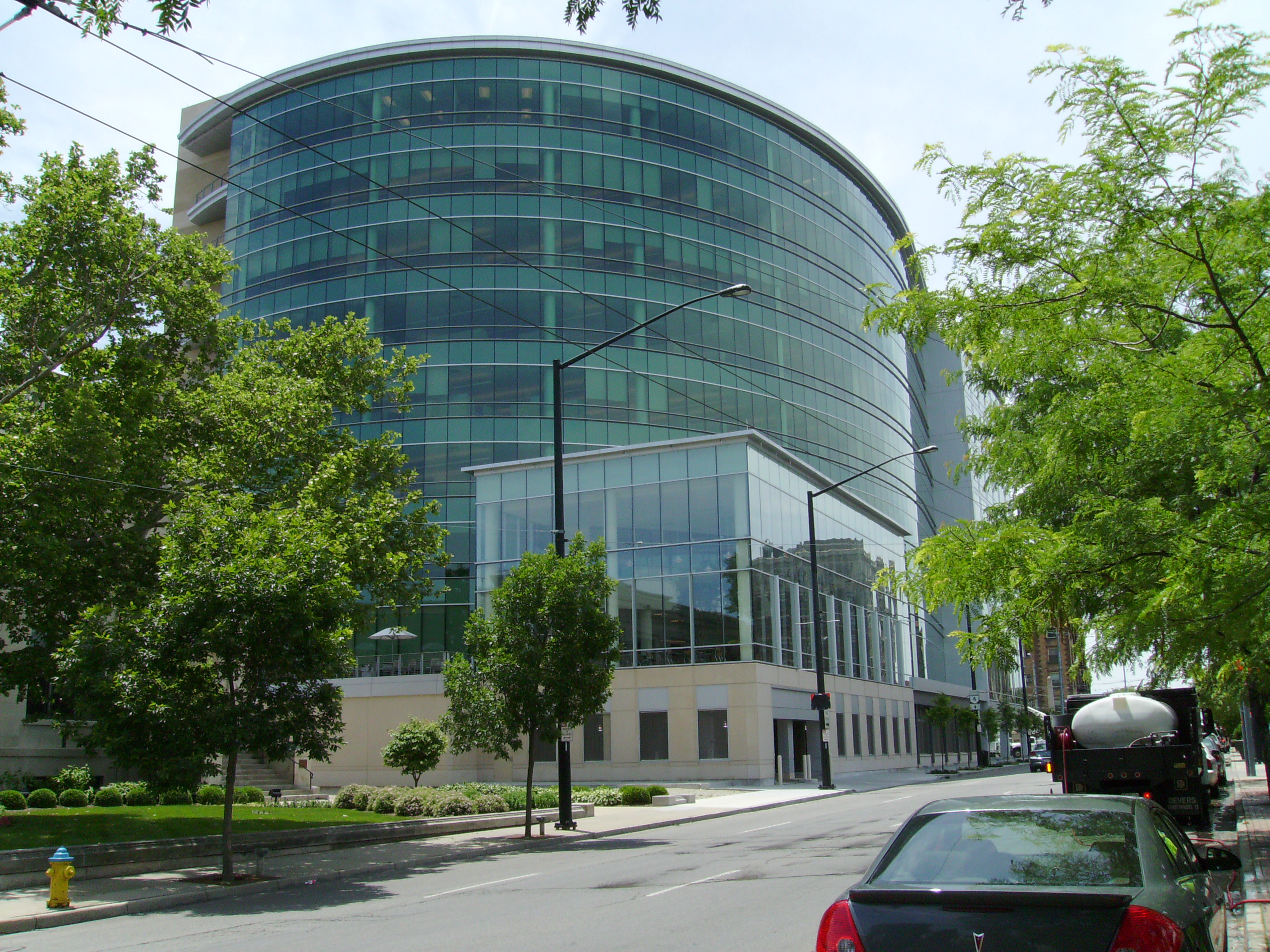 CareSource corporate headquarters in Dayton, Ohio. Photographed myself, not taken from any other sources.